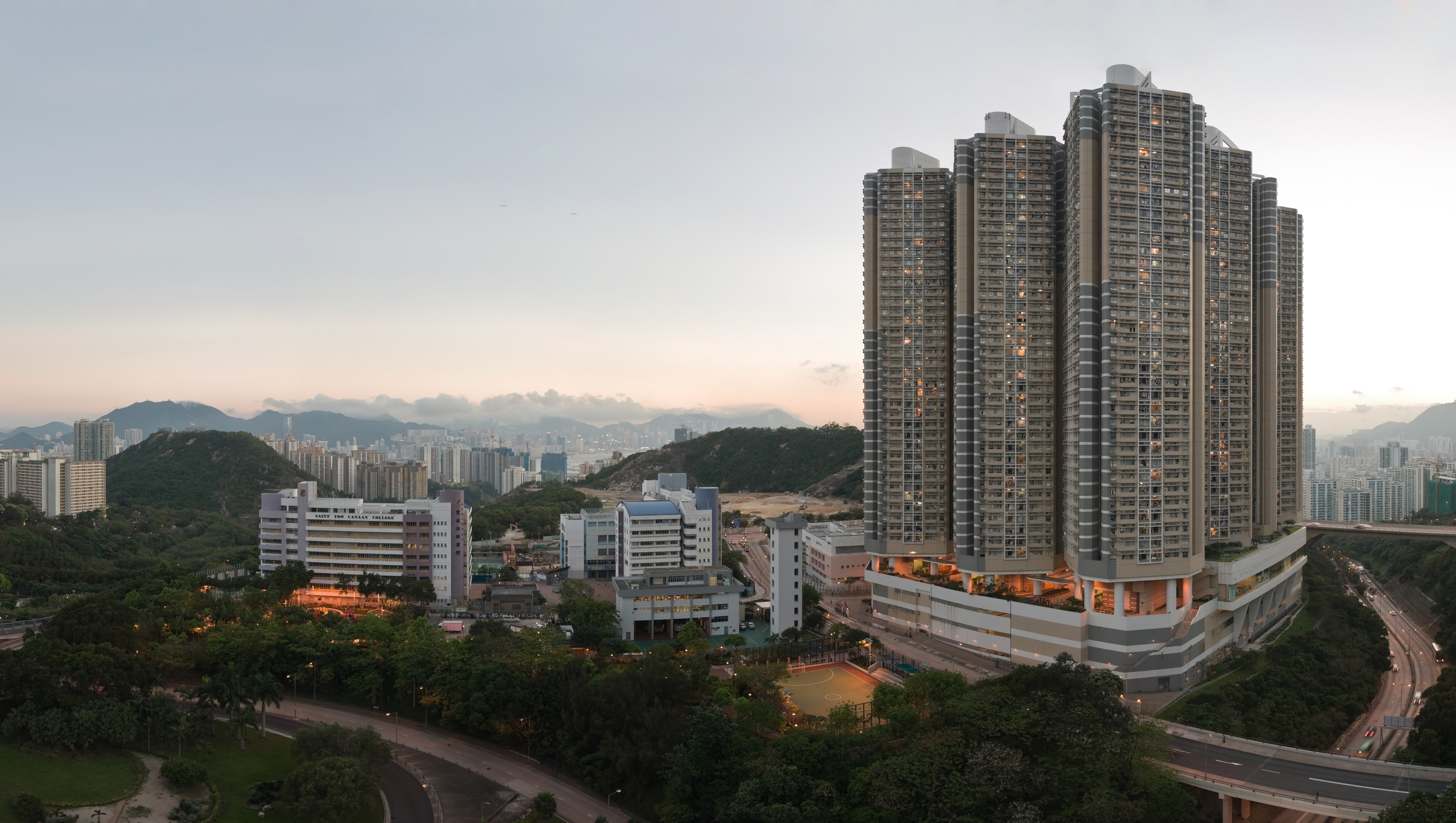 Panorama of southern part of Shun Lee, Kwun Tong, Hong Kong, taken at Civil Twilight. From left to right: Saint Too Canaan College, United Christian College (Kowloon East), Shun Lee Fire Station and Shun Lee Disciplined Services Quarters. The sun is on the right and the camera was facing south. Camera Canon EOS 400D Lens 17-50mm F/2.8 Software Adobe Camera Raw, PTgui Correction Noise, Chromatic aberration, additional sky added